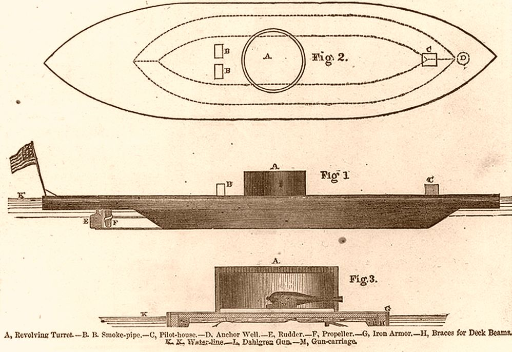 Photo of Engraved sketch plan of USS monitor